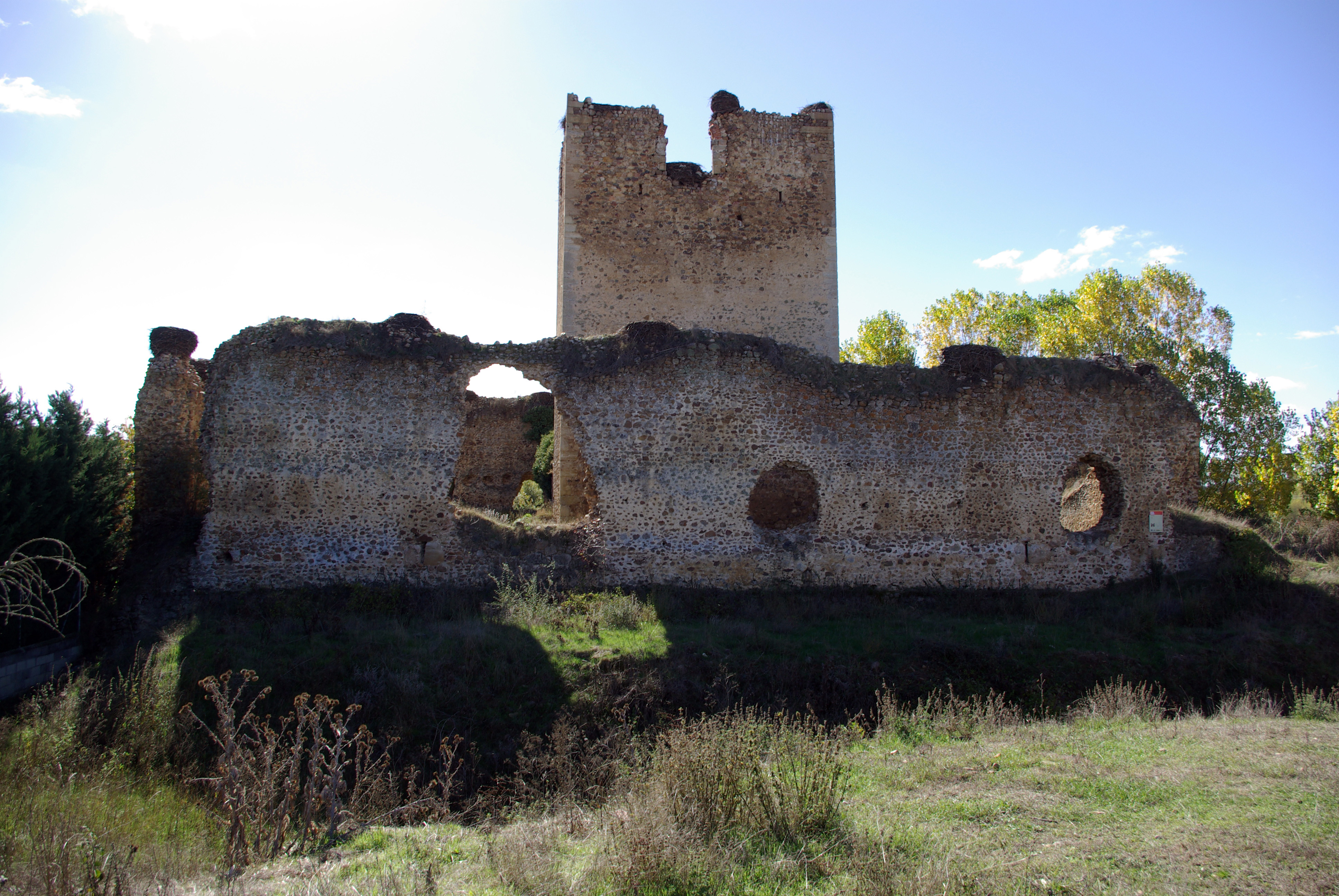 Villapadierna castle, Cubillas de Rueda (León, Spain).